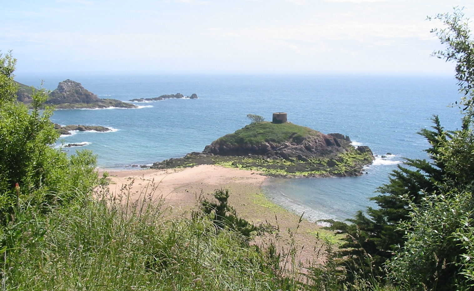 L'Île au Guerdain (Janvrin's Tomb), a tidal island in Portelet, Jersey. Photo taken by Man vyi with Canon PowerShot A40 on 22/5/2005